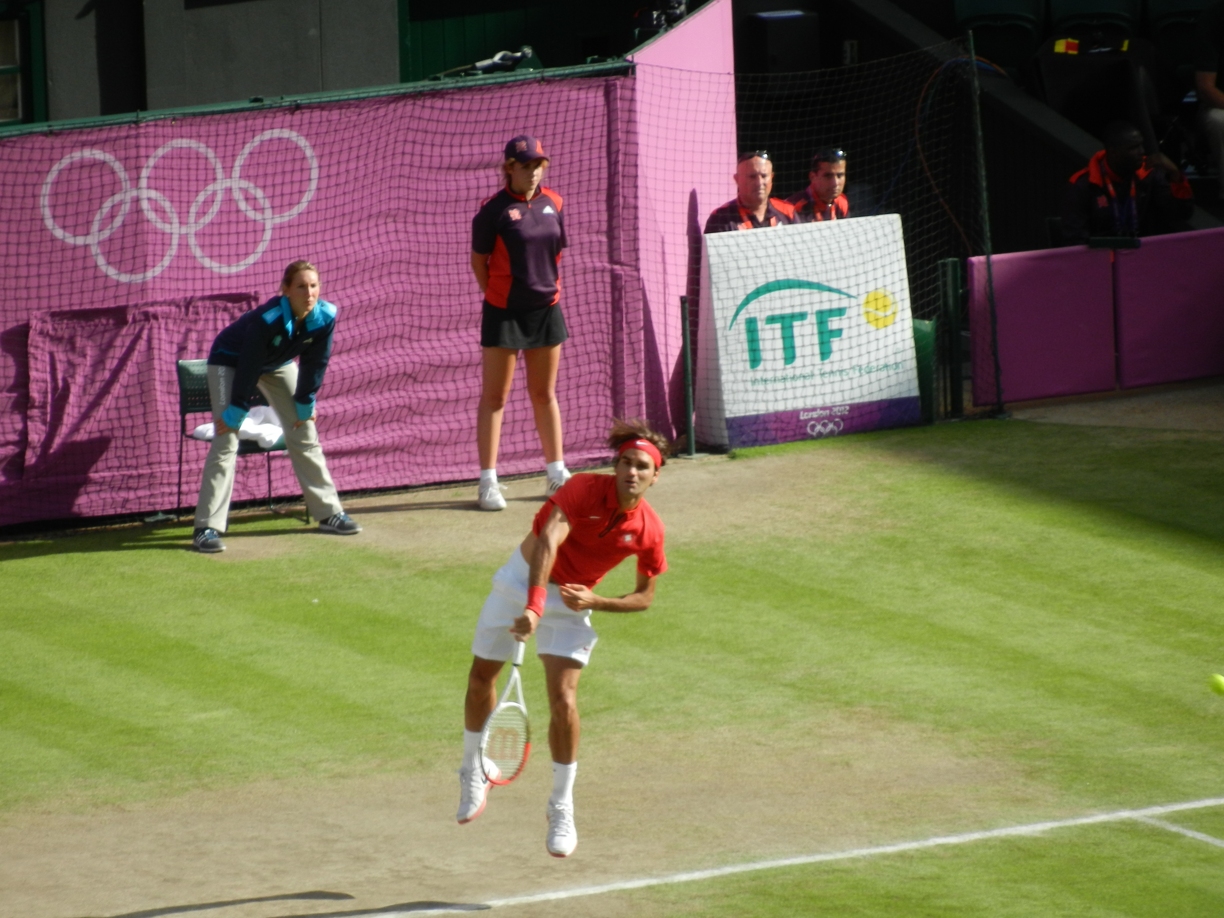 Roger Federer (SUI) serving against John Isner (USA) in their London 2012 Men's Singles quarterfinal match